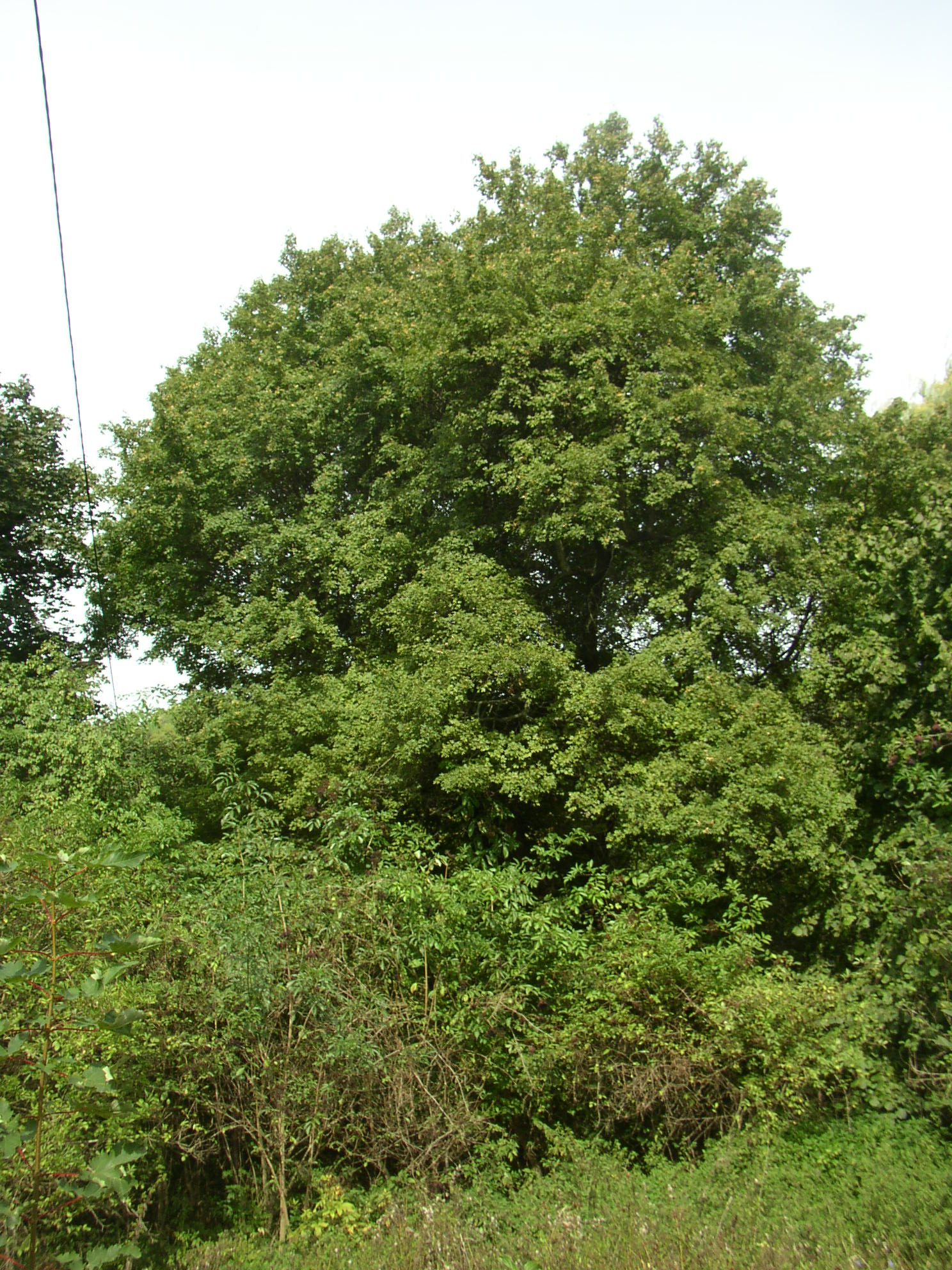 Protected example of Field Maple (Acer campestre) in Vinařice, Kladno District, Czech Republic. General view from the south.